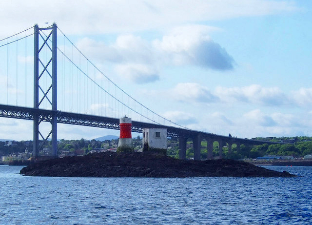 Beamer Rock Navigation marker and light on Beamer Rock. The strata of this rocky Dolerite outcrop may one day hold one of the stanchions of the proposed new bridge over the Forth. As viewed from the bridge at high tide although this rock isn't always covered and at low tide one can expect a completely different appearance and a fuller figure